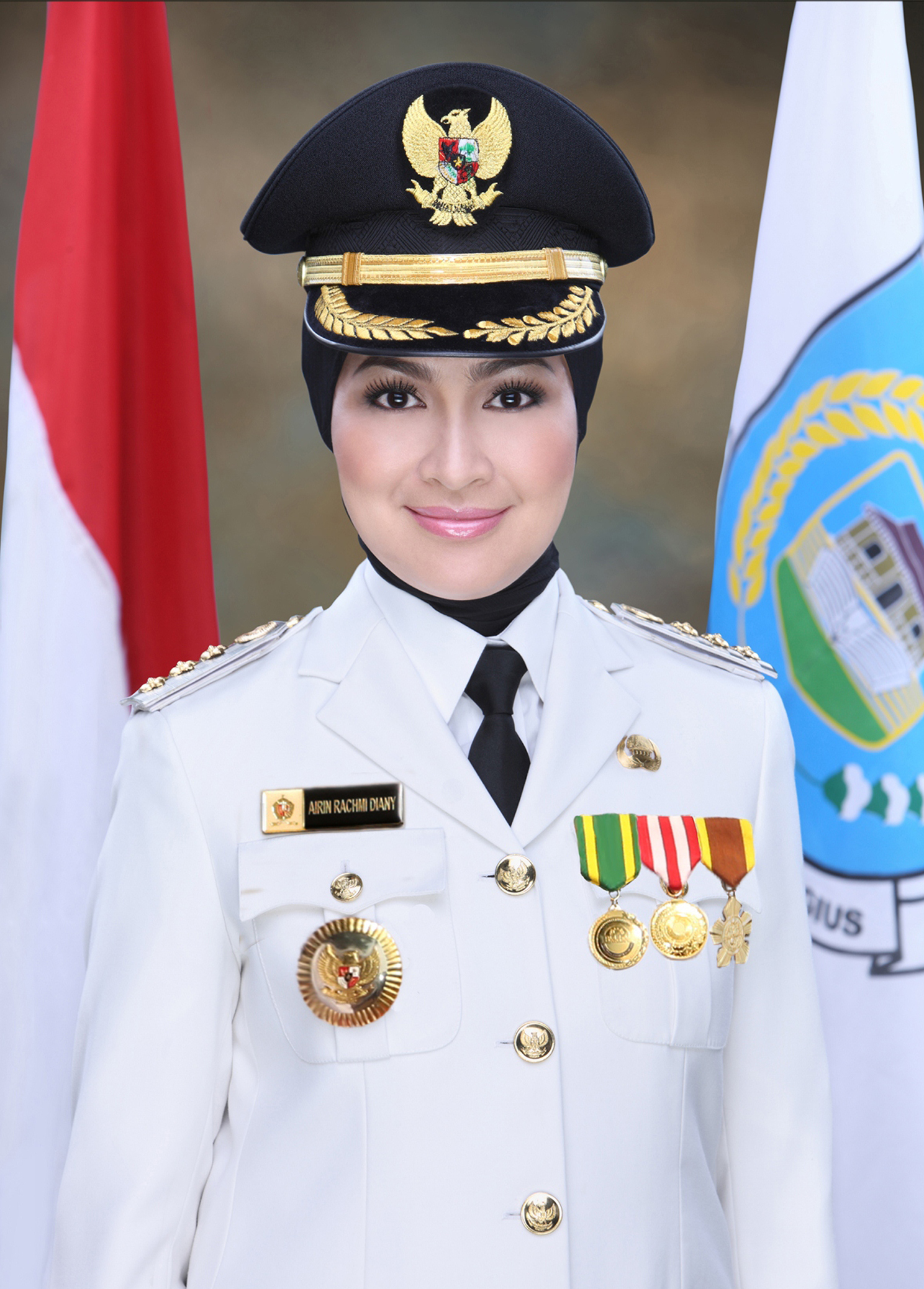 Airin Rachmi Diany as First Mayor of South Tangerang